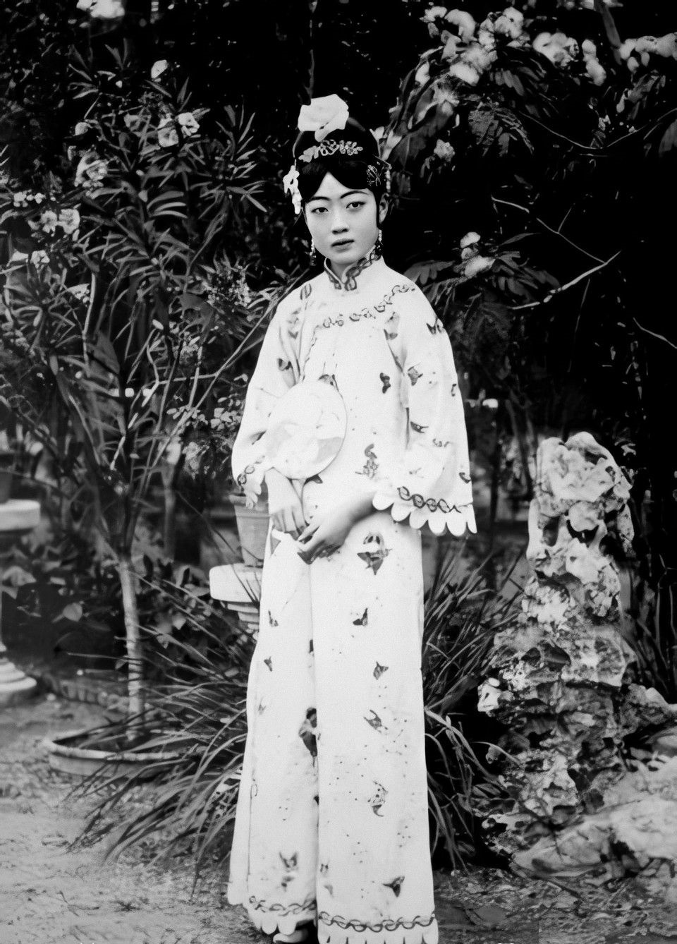 Photograph of WanRong, Empress Consort of China